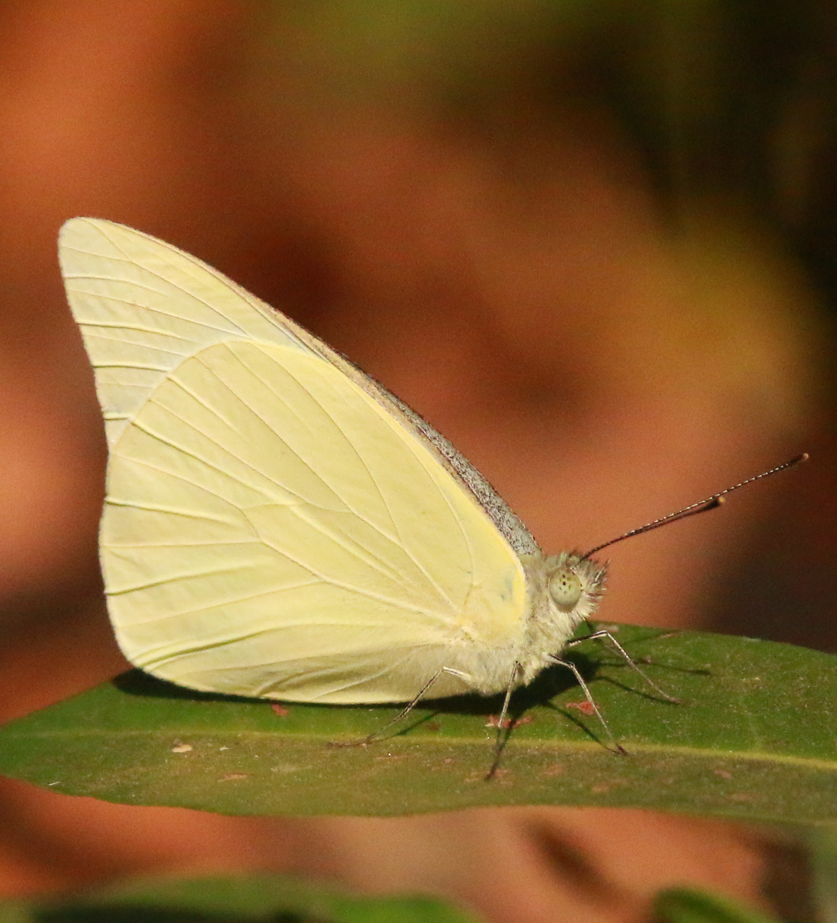 Common albatross appias albina